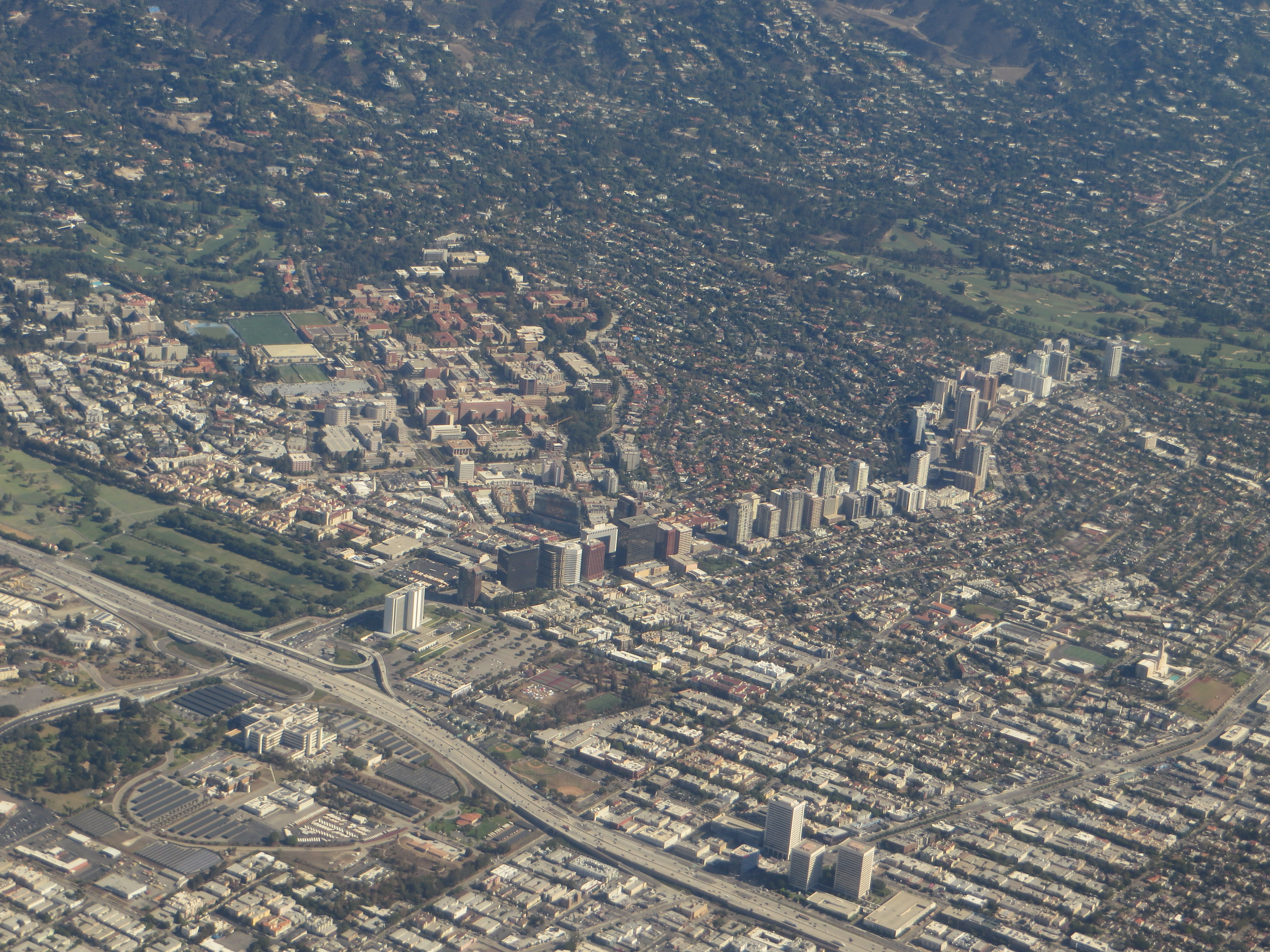 Westwood, Los Angeles, California. Westwood is a commercial and residential neighborhood in the northern central portion of the Westside region of Los Angeles, California. It is the home of the University of California, Los Angeles (UCLA).